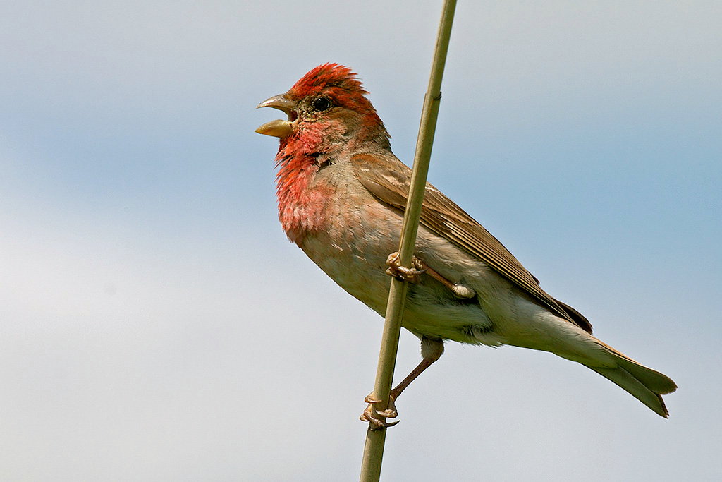 The Common Rosefinch (male, singing) photographed in Beka reserve, Poland.